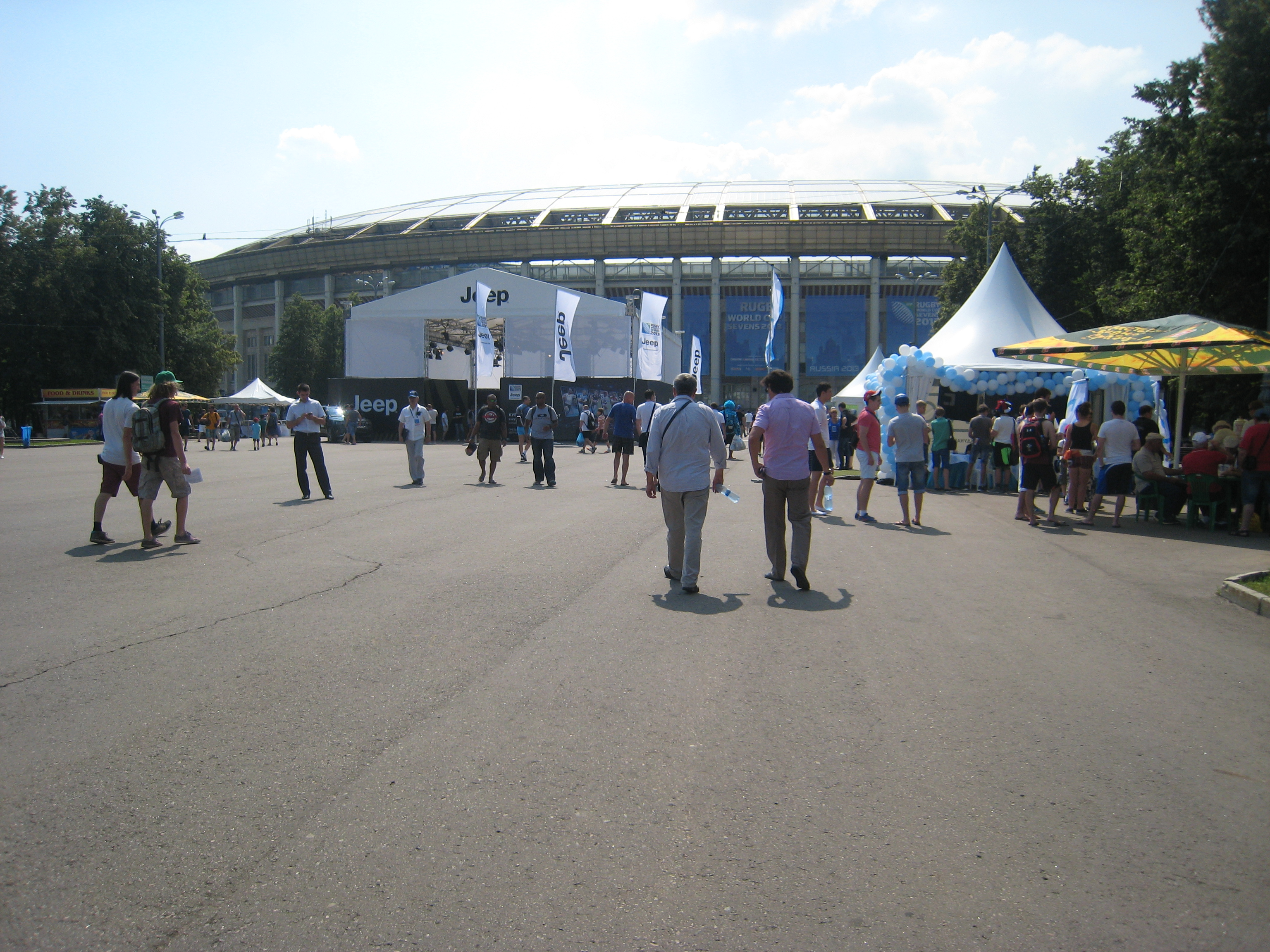 First Day of the 2013 Rugby World Cup Sevens in Moscow